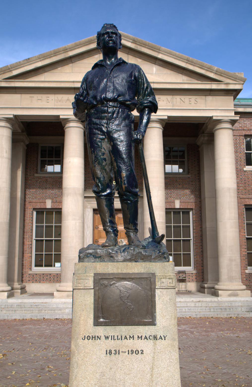 Statue of John William Mackay from June 1908 at University of Nevada, Reno by Gutzon Borglum.